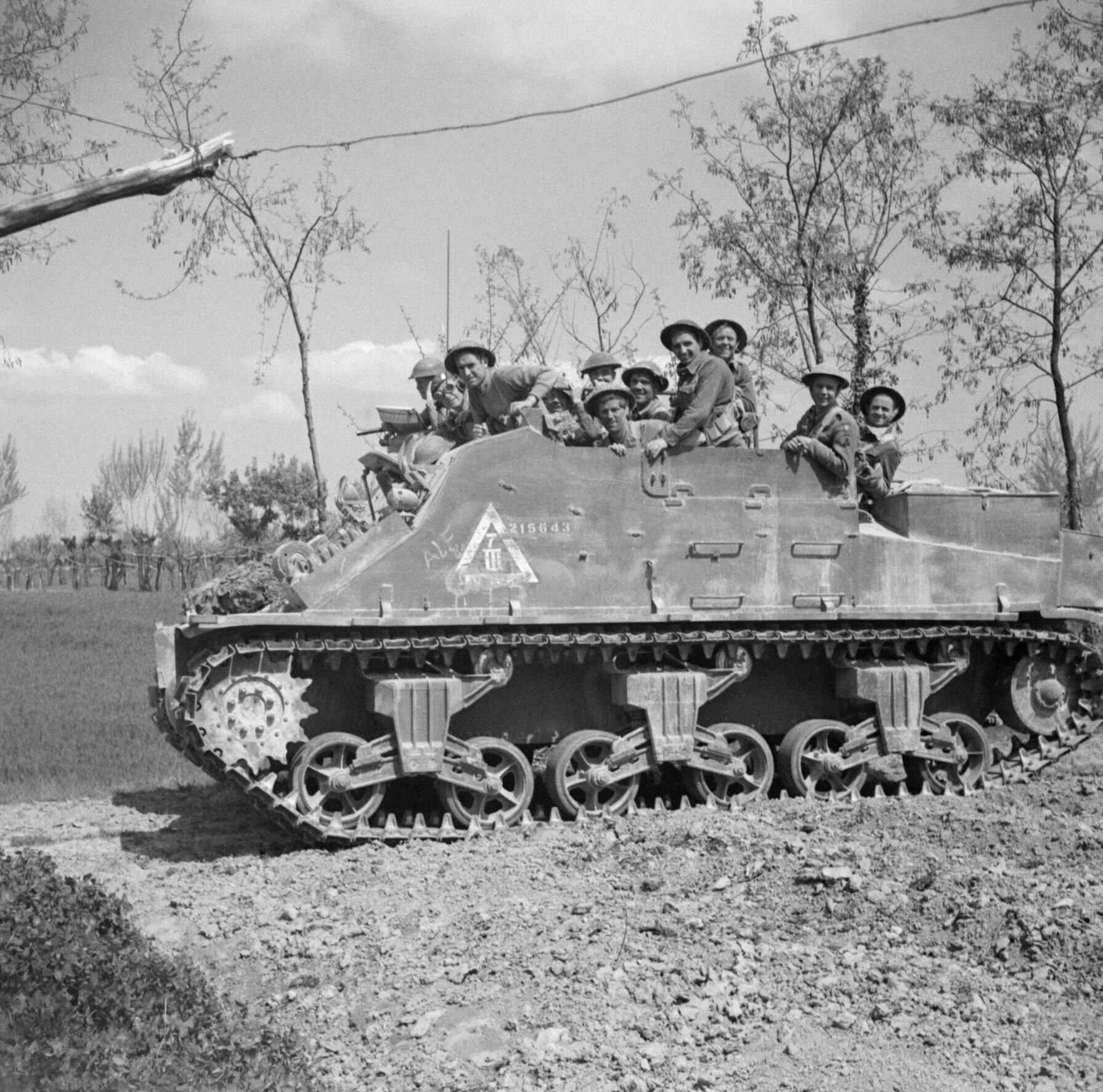 THE BRITISH ARMY IN ITALY 1945; A Priest Kangaroo personnel carrier of 209th Self-Propelled Battery, Royal Artillery, transports infantry of 78th Division near Conselice